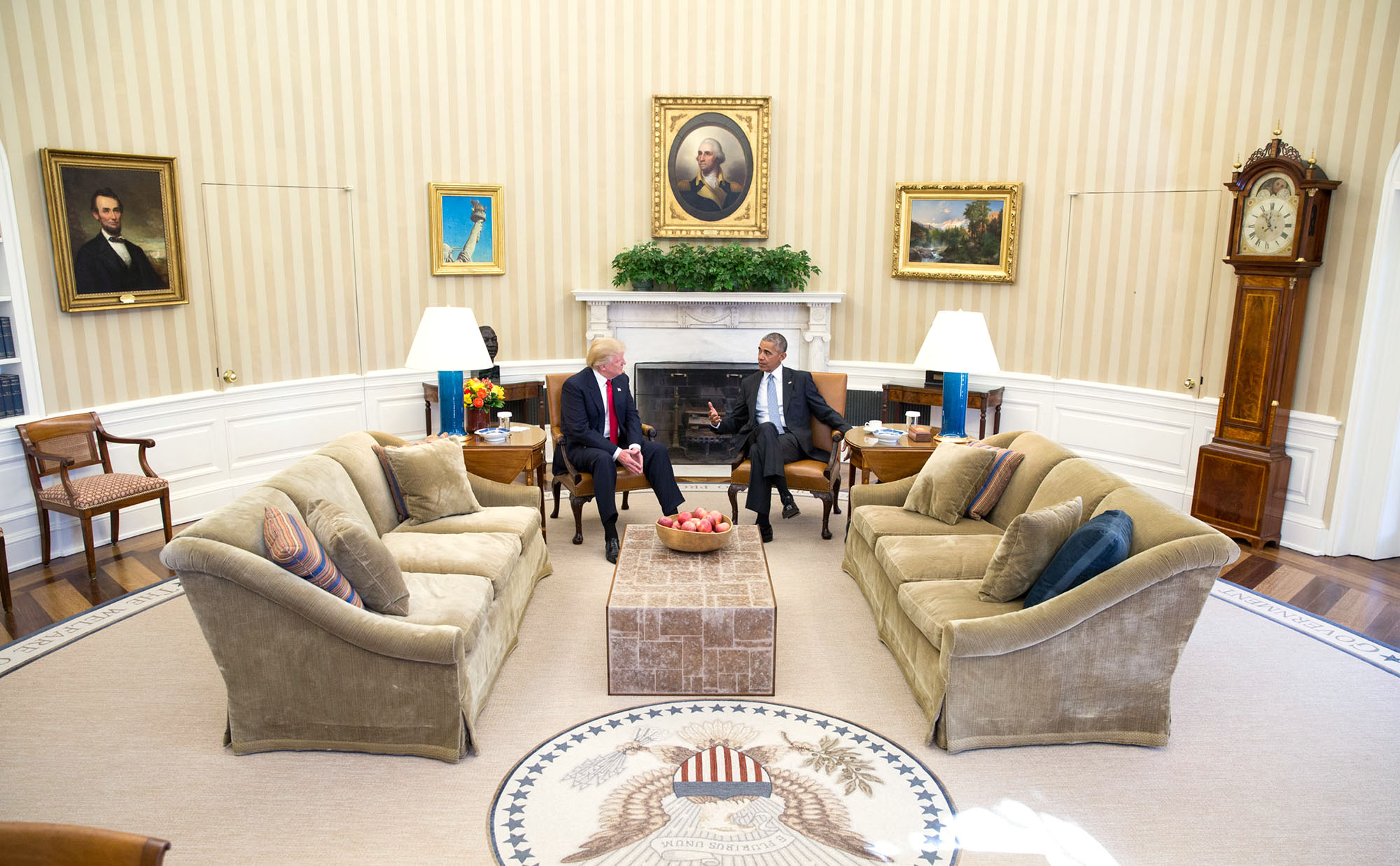 President Barack Obama meets with President-elect Donald Trump in the Oval Office, Nov. 10, 2016. (Official White House Photo by Pete Souza)